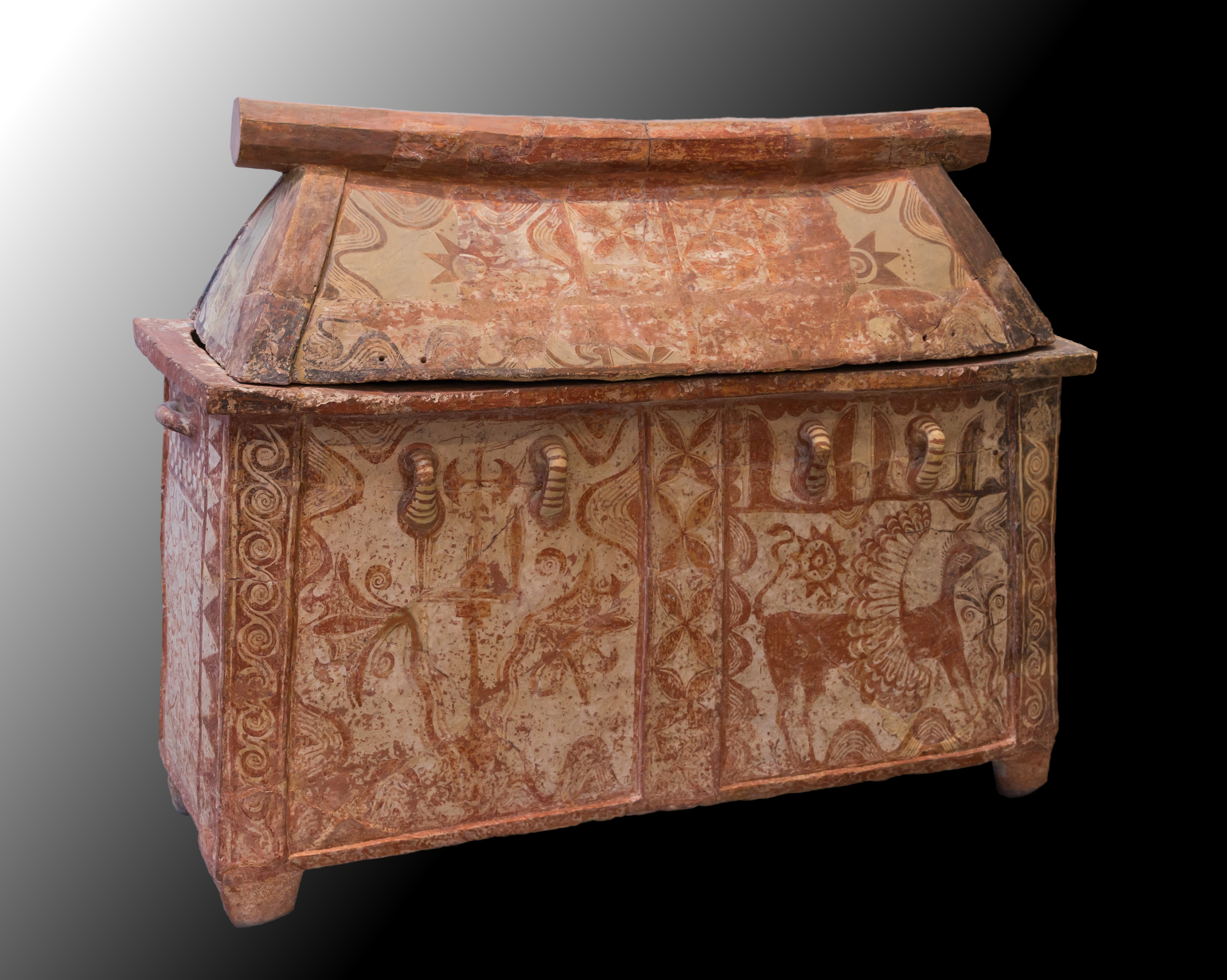 A minoan sarcophagus, Crete, Greece